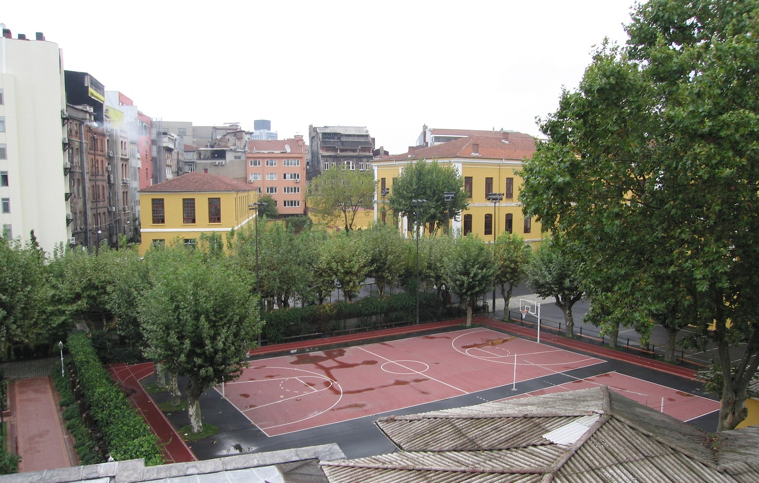 Schoolyard Galatasaray Highschool (Galatasaray Lisesi), Beyoğlu, Istanbul, Turkey.